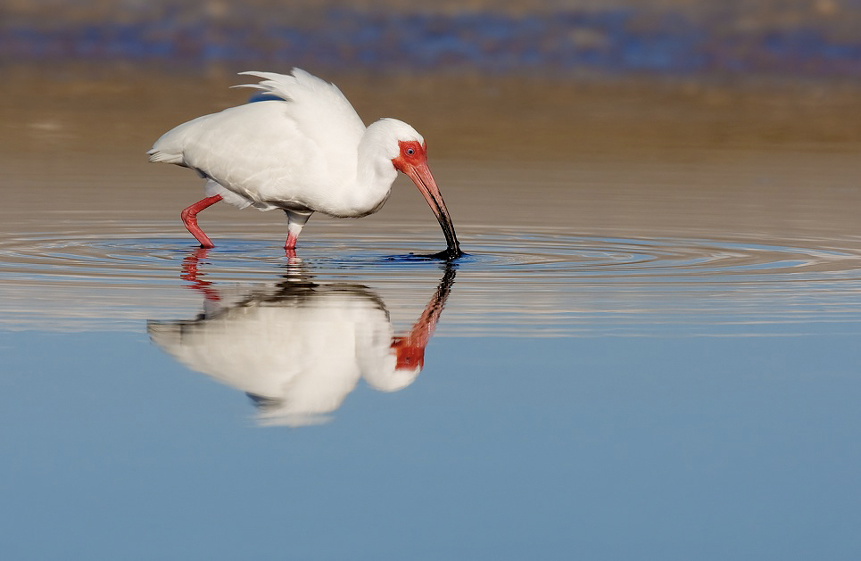 White Ibis foraging